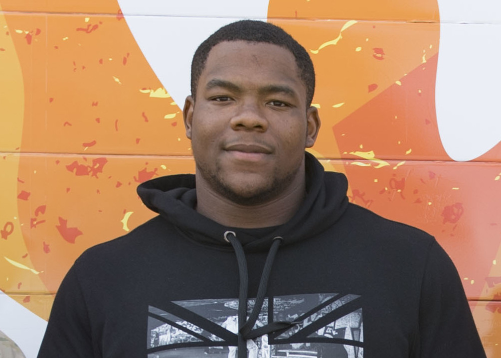 National Football League player Daron Payne, Washington Redskins defensive tackle, and Fort Eustis personnel hold up a football jersey during the grand opening of the Dentrust Optimized Care Solutions mobile treatment facility at Joint Base Langley-Eustis, Virginia, July 8, 2019. Payne received the jersey as a token of appreciation for his efforts to help celebrate the grand opening. (U.S. Air Force photo by Airman 1st Class Monica Roybal)